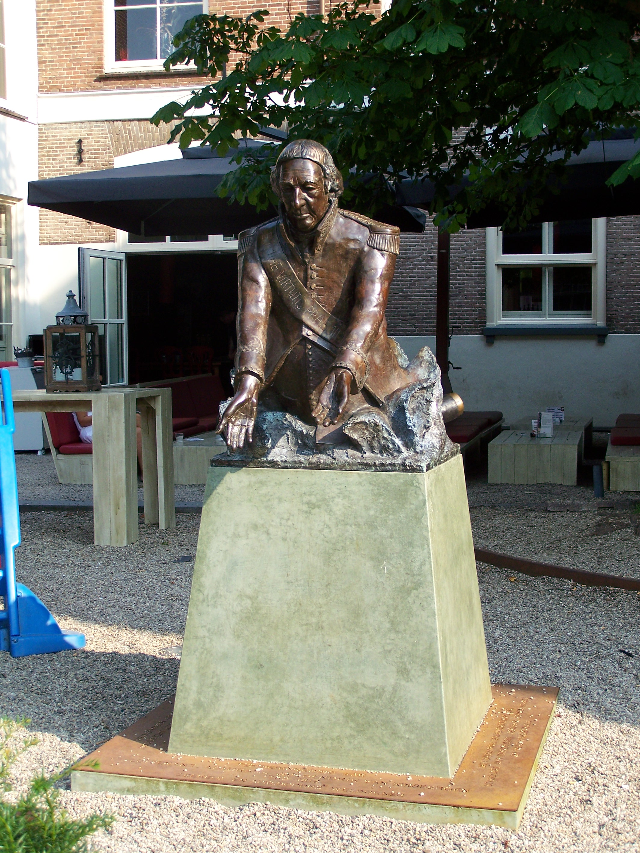 Sculpture of admiral Van Kinsbergen by Erzsébet Baerveldt in 2008 at the Vosselmanstraat in Apeldoorn.